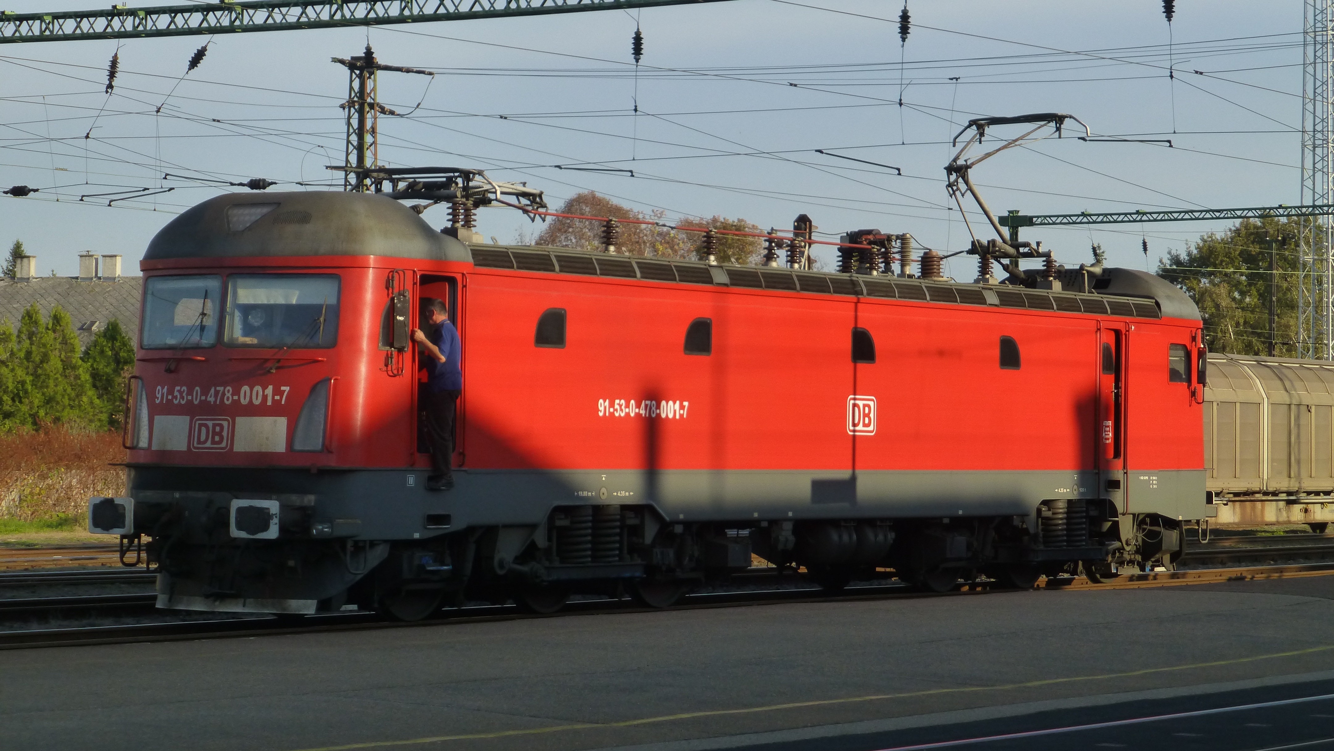 Softronic Phoenix locomotive of the DB Schenker Rail Romania in Kecskemét, Hungary.